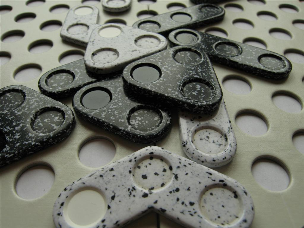 Detail of the board game Pünct